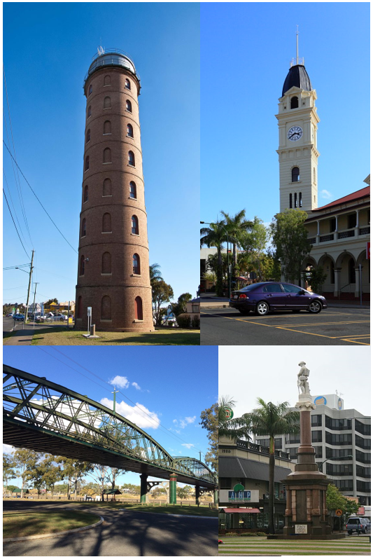 From top left clockwise: East Water Tower, Bundaberg Post Office, War Memorial, Burnett Bridge